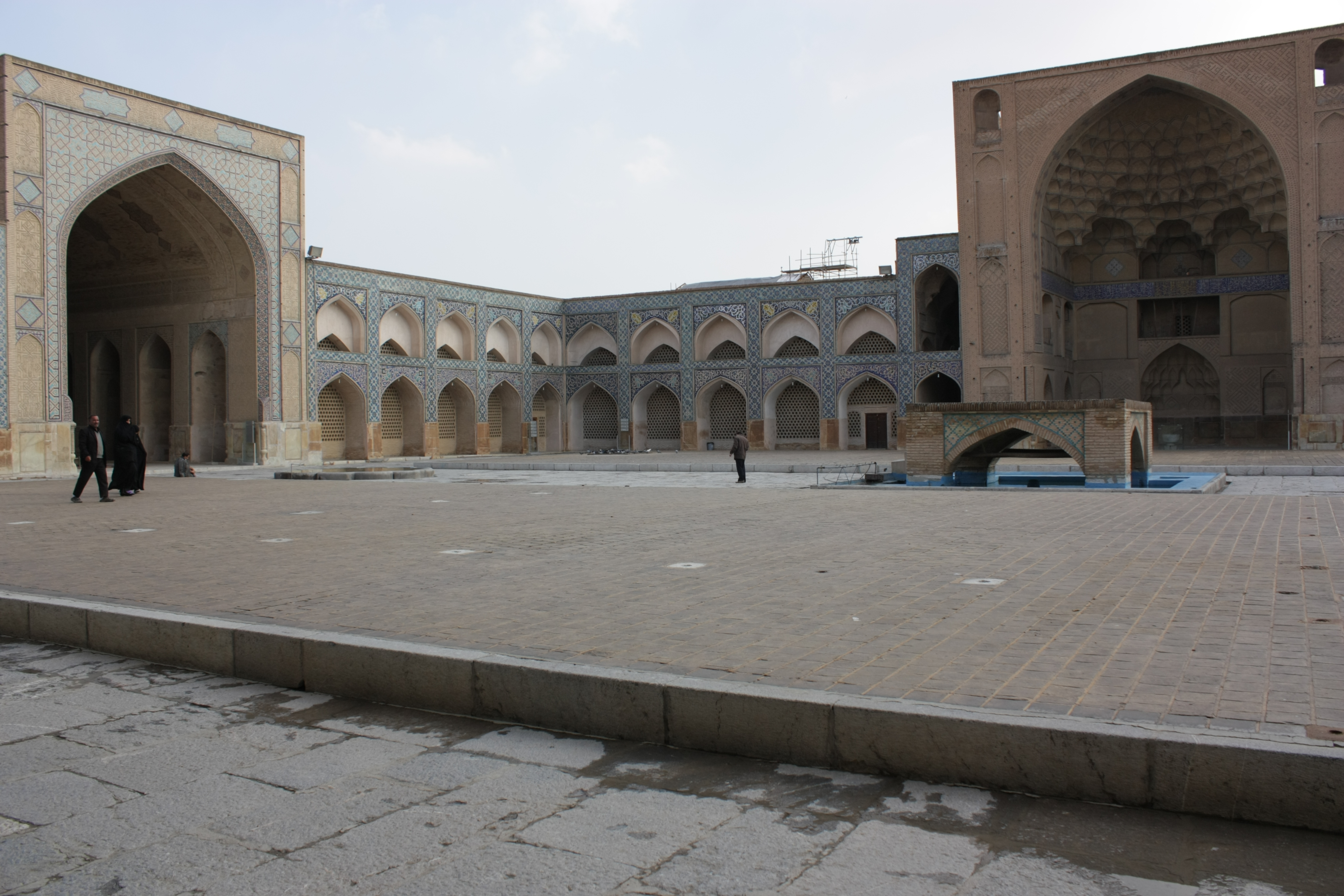 Masjed-e Jomeh, Isfahan